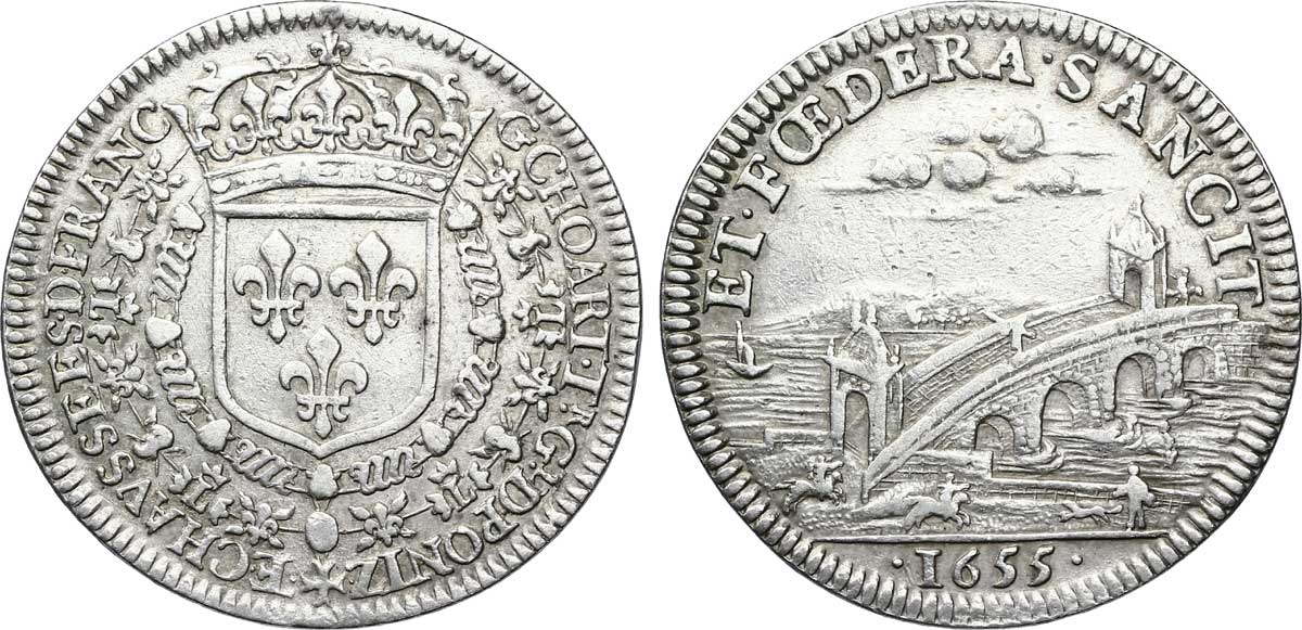 Jeton des ponts et chaussées Titulature revers : ET. FOEDERA. SANCIT ; à l'exergue : 1655 . Description revers : Un pont à cinq arches avec deux entrées . Traduction revers : Il garantit aussi le traité .